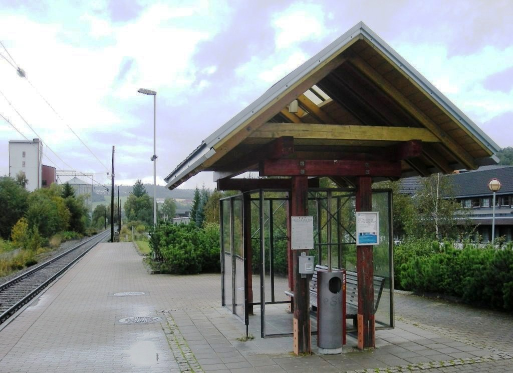 The current station at Melhus (Sør-Trøndelag, Norway)